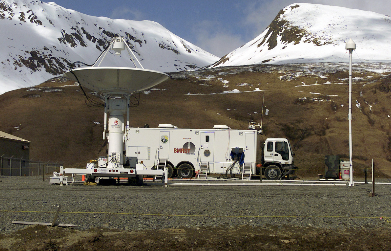 The Ballistic Missile Range Safety Technology (BMRST) system on station at the Kodiak Launch Complex (KLC), Kodiak, Alaska. Members of the Florida Air National Guard's 114th Combat Communications Squadron (CBCS), Patrick AFB, Florida, deployed here for over a month in preparation for the launch of the Quick Reaction Launch Vehicle (QRLV) during Exercise NORTHERN EDGE